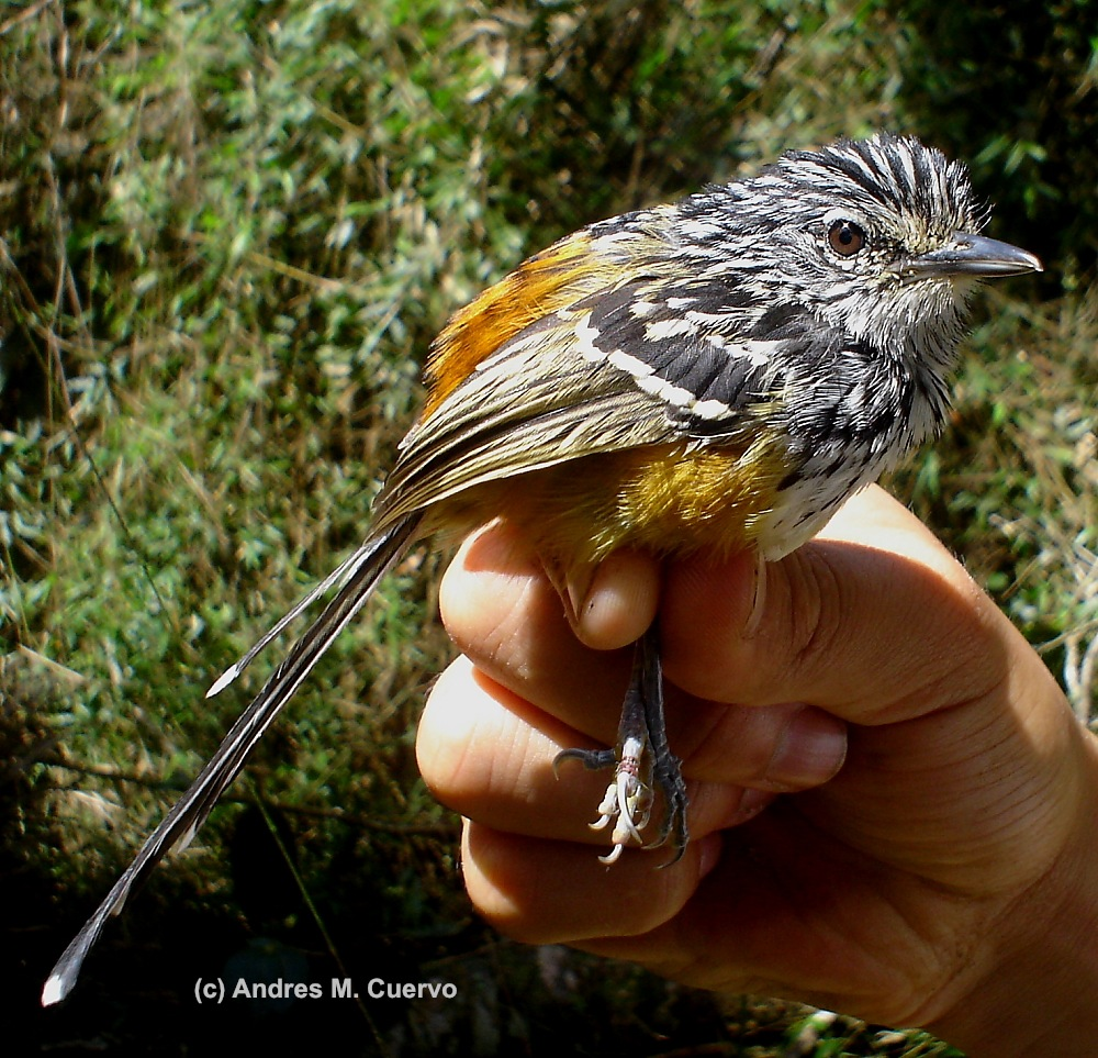 High elevation antbirds are rare, but "Drymophila caudata", as traditionally defined, can reach up to 3150 m! However, there's a lot of variation in elevational distribution and ecological preferences among the four species (it's not just one!). This is Chapman's Drymophila striaticeps from the Central and Western cordilleras of Colombia south to the Bolivian Andes. A recent study by Mort Isler and our group at LSU on the evolutionary differentiation of Andean Drymophila antbirds was published in the journal Condor 114: 571-583. Check out Drymophila klagesi